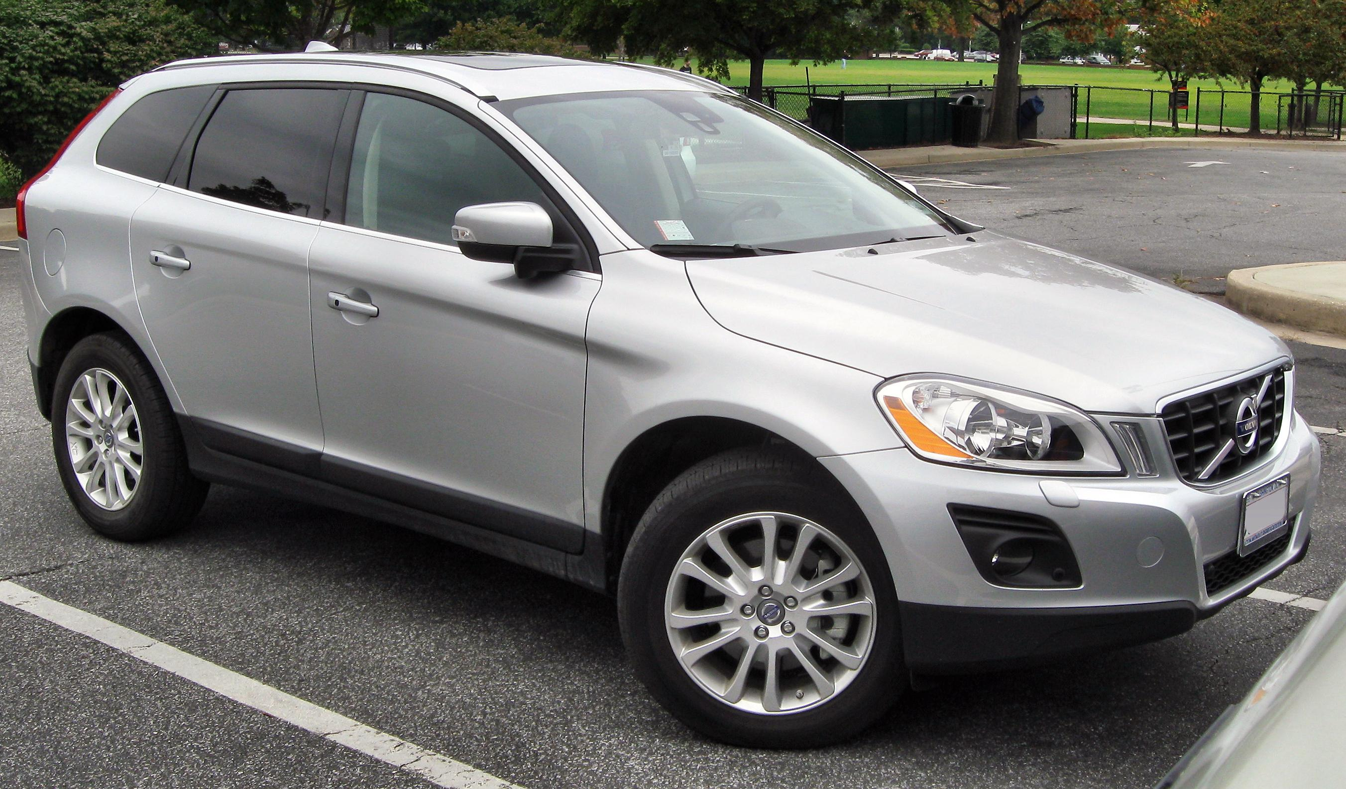 2010 Volvo XC60 photographed in College Park, Maryland, USA.